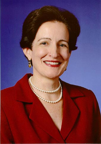 Official photo of FCC Commissioner Gloria Tristani.